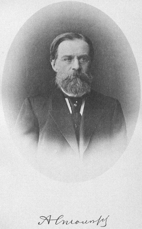 Aleksandr Stoletov